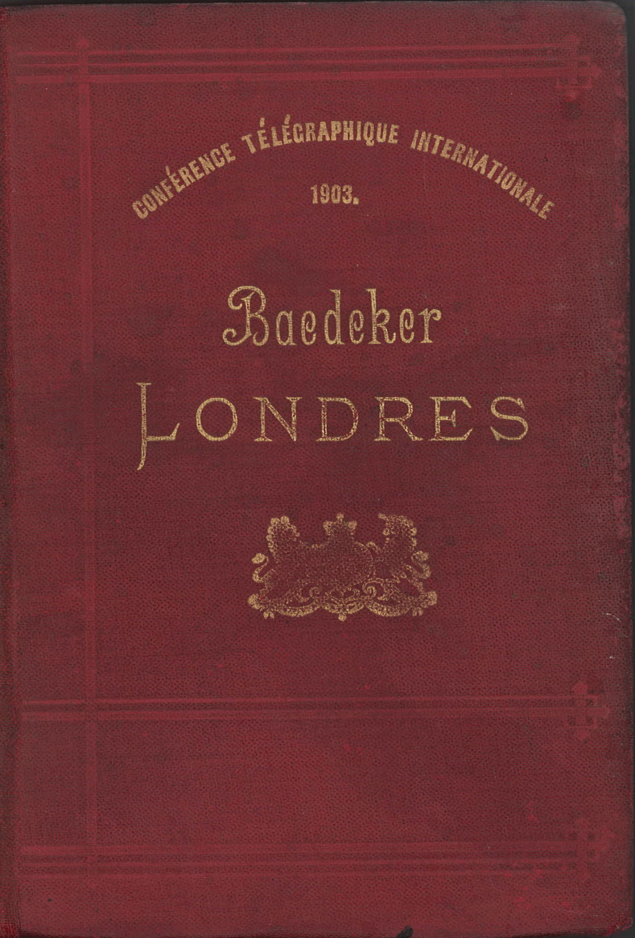 Frontcover of the special edition of Baedeker's Londres (1899) for the "Conférence Télégraphique Internationale“ 1903 in London